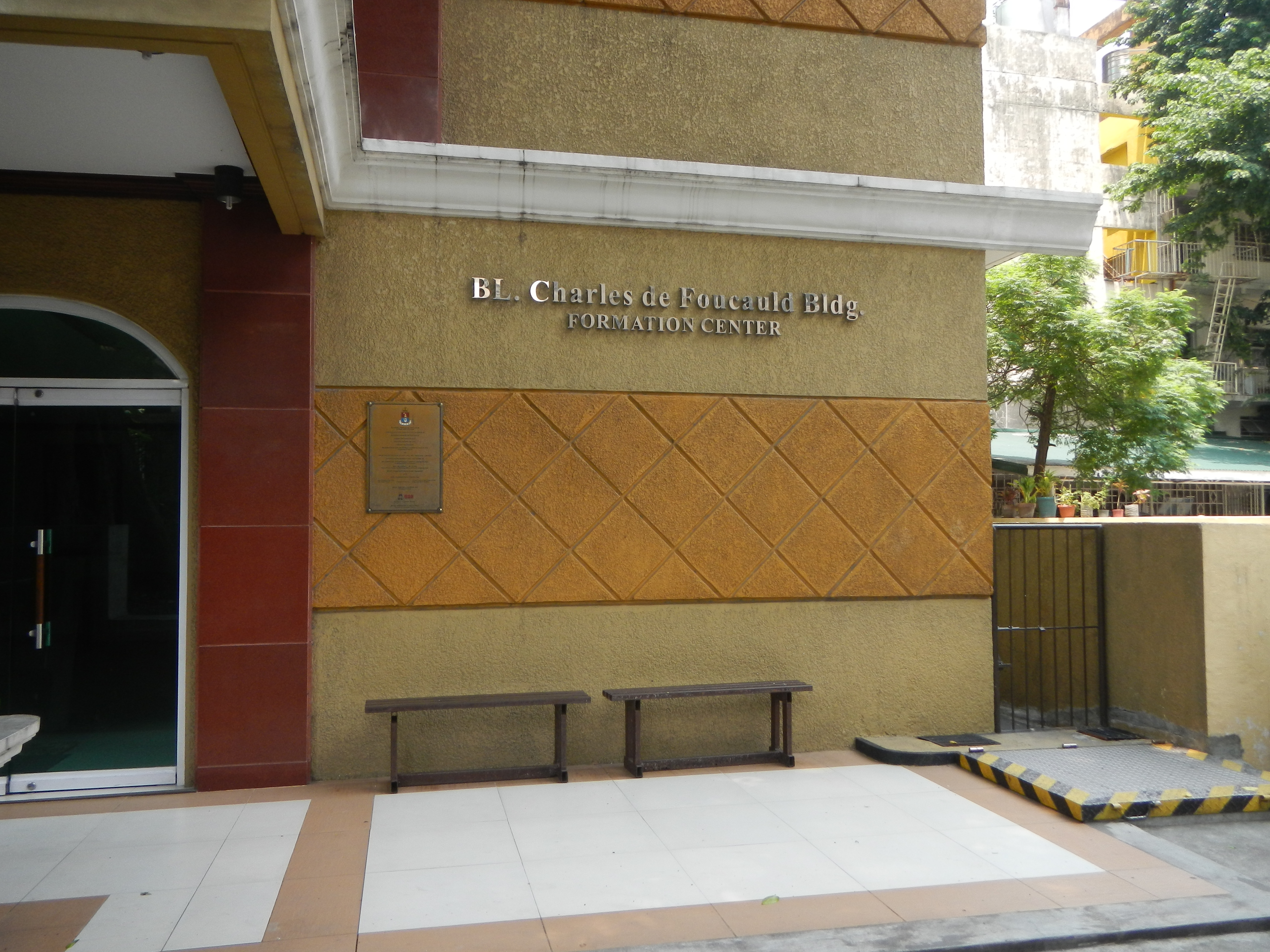 Our Lady of Guidance Ermita Catholic School since 1903 Blessed Charles de Foucald Formation Center, July 27, 2013 under HDC Corporation Architect Joseph A. Palafox along M. H. del Pilar Street in the List of roads in Metro Manila, Major roads in Manila, List of barangays of Metro Manila, Legislative districts of Manila Barangays 667 and 668, Zone 72, District V, Ermita, Manila, City of Manila; Note: Judge Florentino Floro, the owner, to repeat, Donor Florentino Floro of all these photos hereby donate gratuitously, freely and unconditionally all these photos to and for Wikimedia Commons, exclusively, for public use of the public domain, and again without any condition whatsoever).